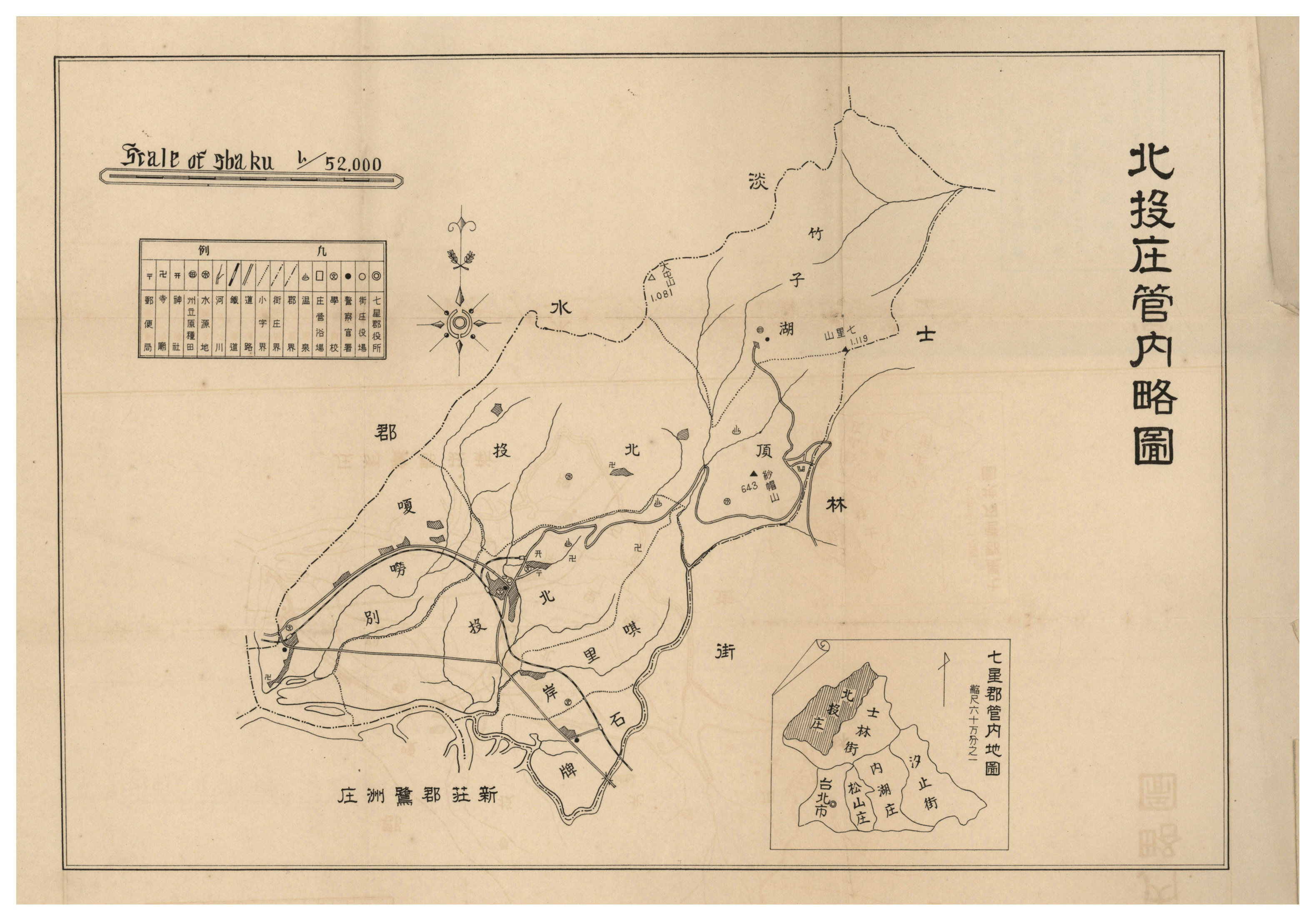 Map of Hokuto Town, published in 1934